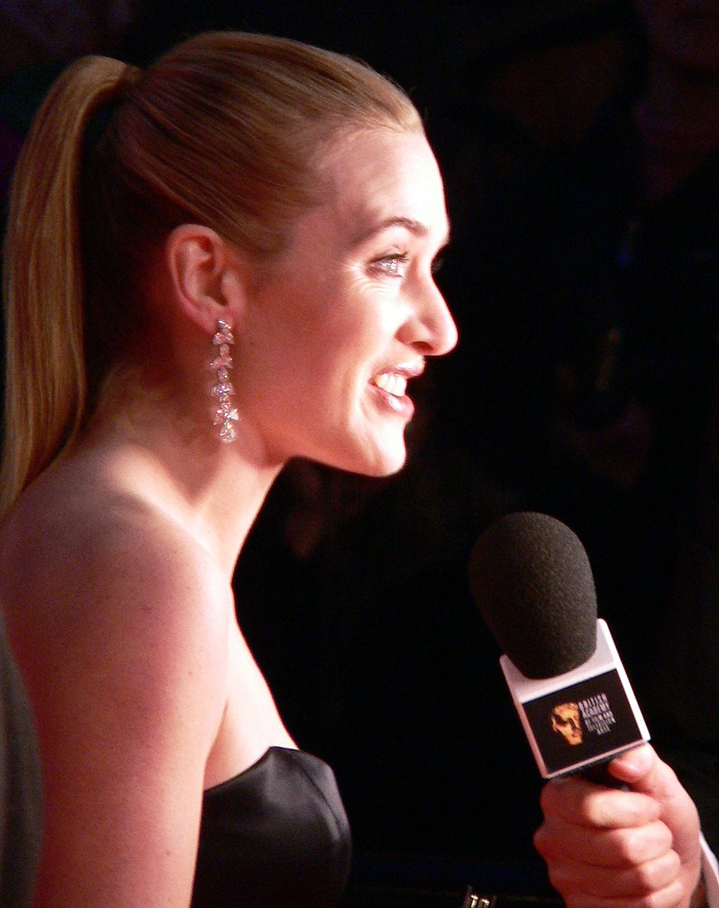 Kate Winslet at the BAFTA 2007.